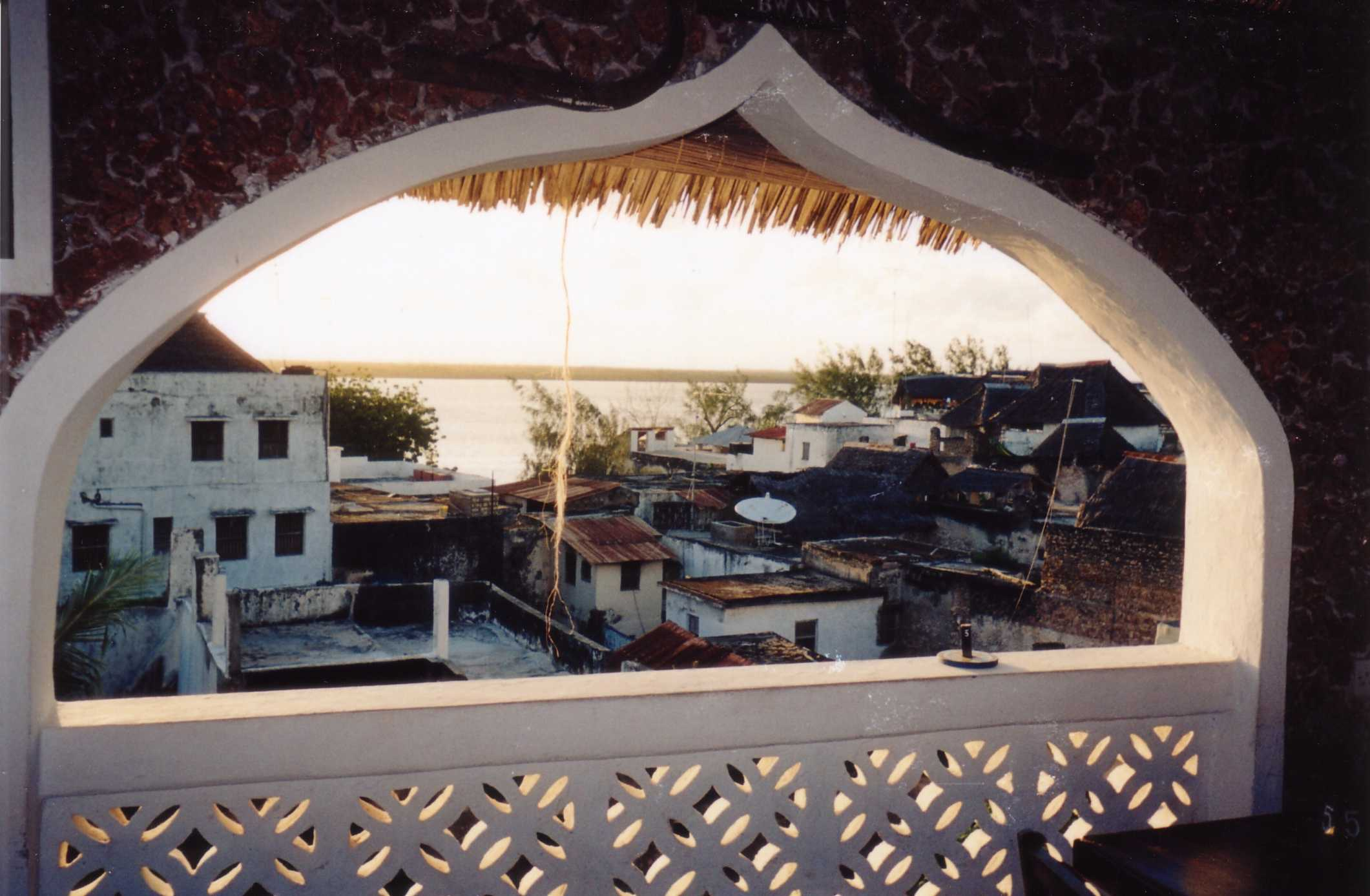 View from window of Restaurant at Stone House Hotel in Lamu, Kenya, photo by Kevin Borland, July, 2001.